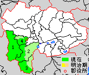 Location Map of Minamikoma District in Yamanashi Prefecture, Japan